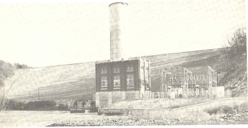 TVA's Blue Ridge Dam and surge tank on the Toccoa River in Fannin County, Georgia, USA.